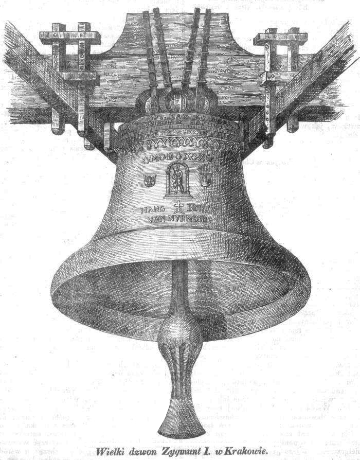 Zygmunt (bell), MDXX, HANS BEHAN VON NURMBERG